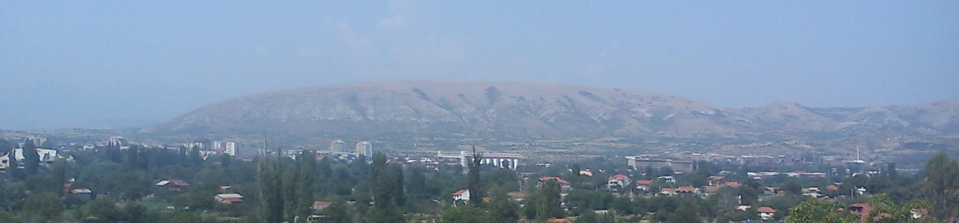 Groot Hill near Veles,Macedonia